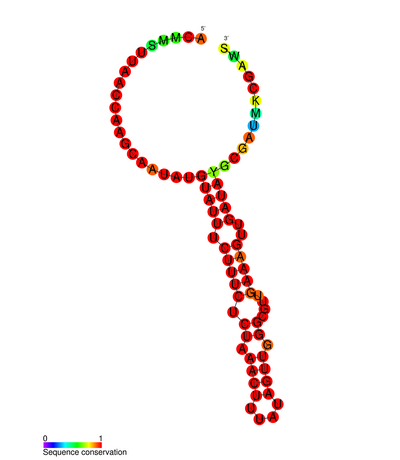 Secondary structure of HSR-omga